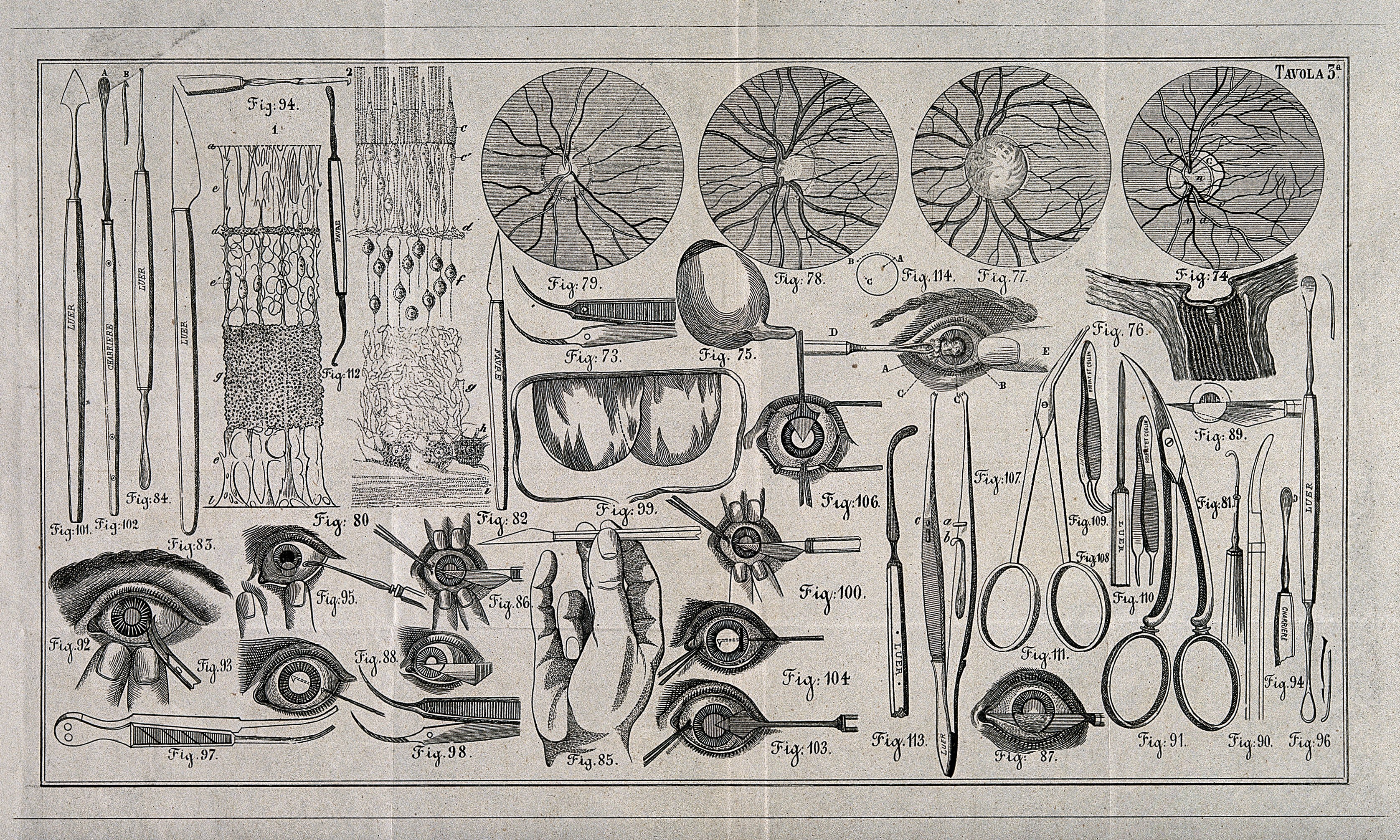 A sheet showing optical instruments, eye examinations and anatomical diagrams of the eye with a numbered key. Wood engraving. Iconographic Collections Keywords: eye - diseases and defects; surgical instruments and appar; Ophthalmology; scientific illustrations; ophthalmology - instruments; eye - examination; wood engravings